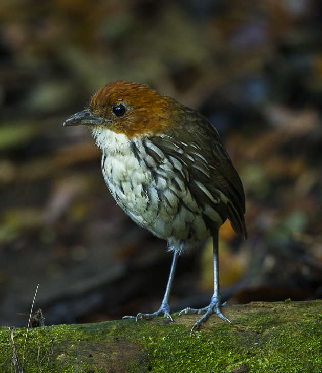 Chestnut-crowned Antpitta - Colombia_S4E1712